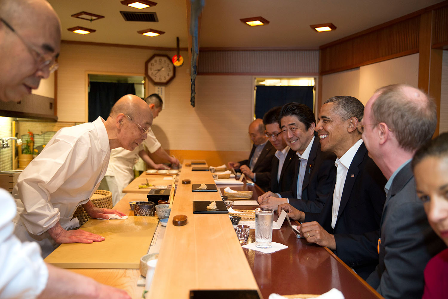 President Barack Obama and Prime Minister Shinzo Abe of Japan talk with sushi master Jiro Ono, owner of Sukiyabashi Jiro sushi restaurant, during a dinner in Tokyo, Japan, April 23, 2014. (Official White House Photo by Pete Souza)